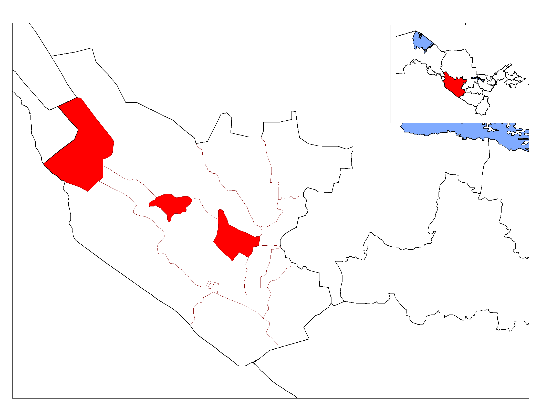 Location map of Romitan District in Buxoro Province, Uzbekistan